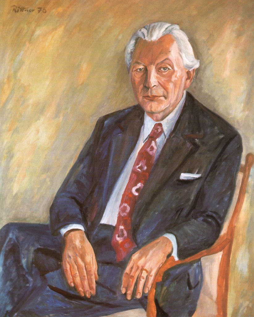 Kurt Georg Kiesinger, German Chancellery Berlin, Gallery of Chancellors